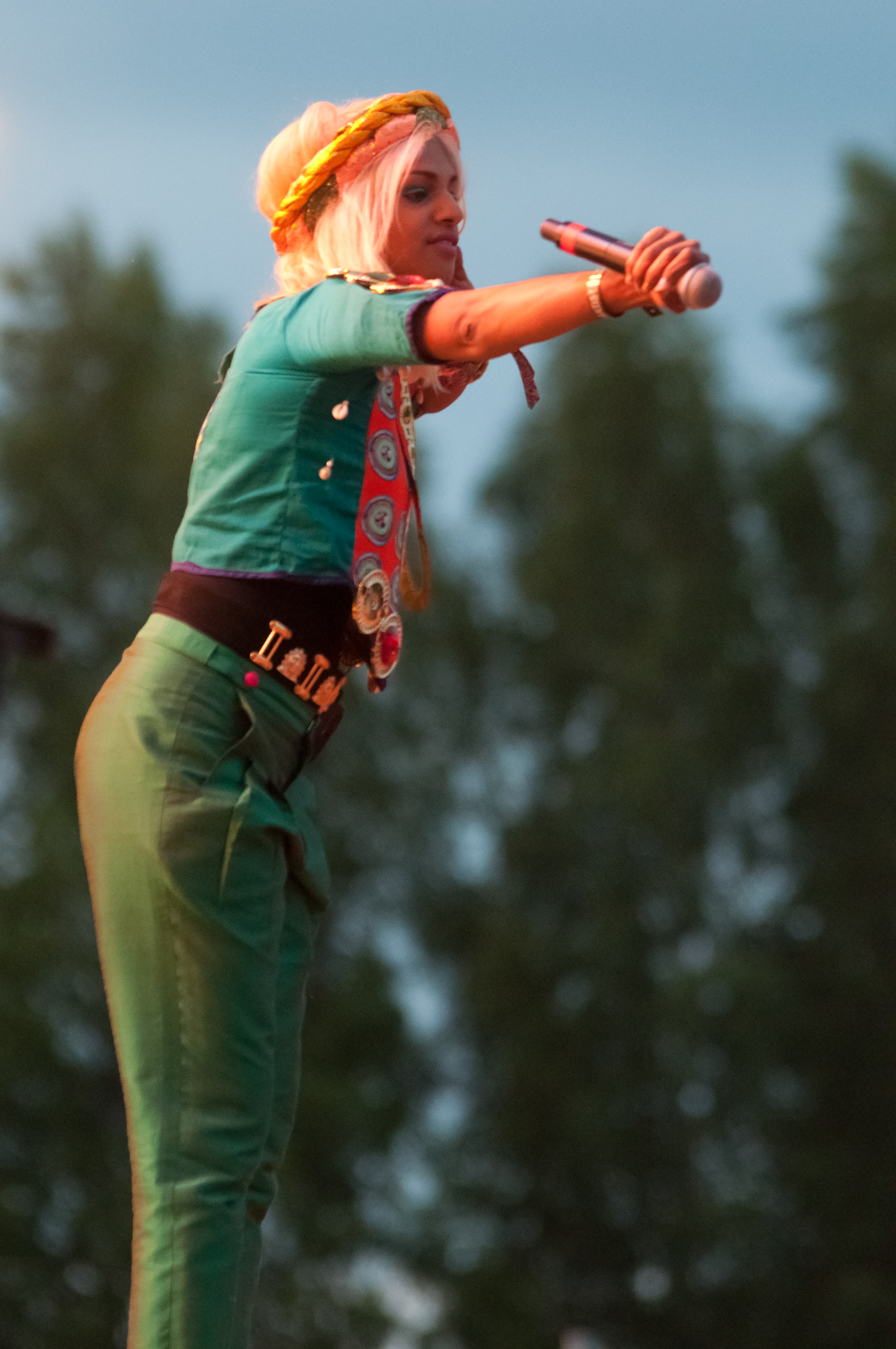 M.I.A. performs on the /\/\ /\ Y /\ support tour, 2011 at Peace and Love Festival